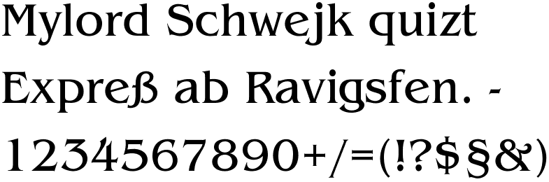 Font sample: Benguiat Book from Linotype Collection